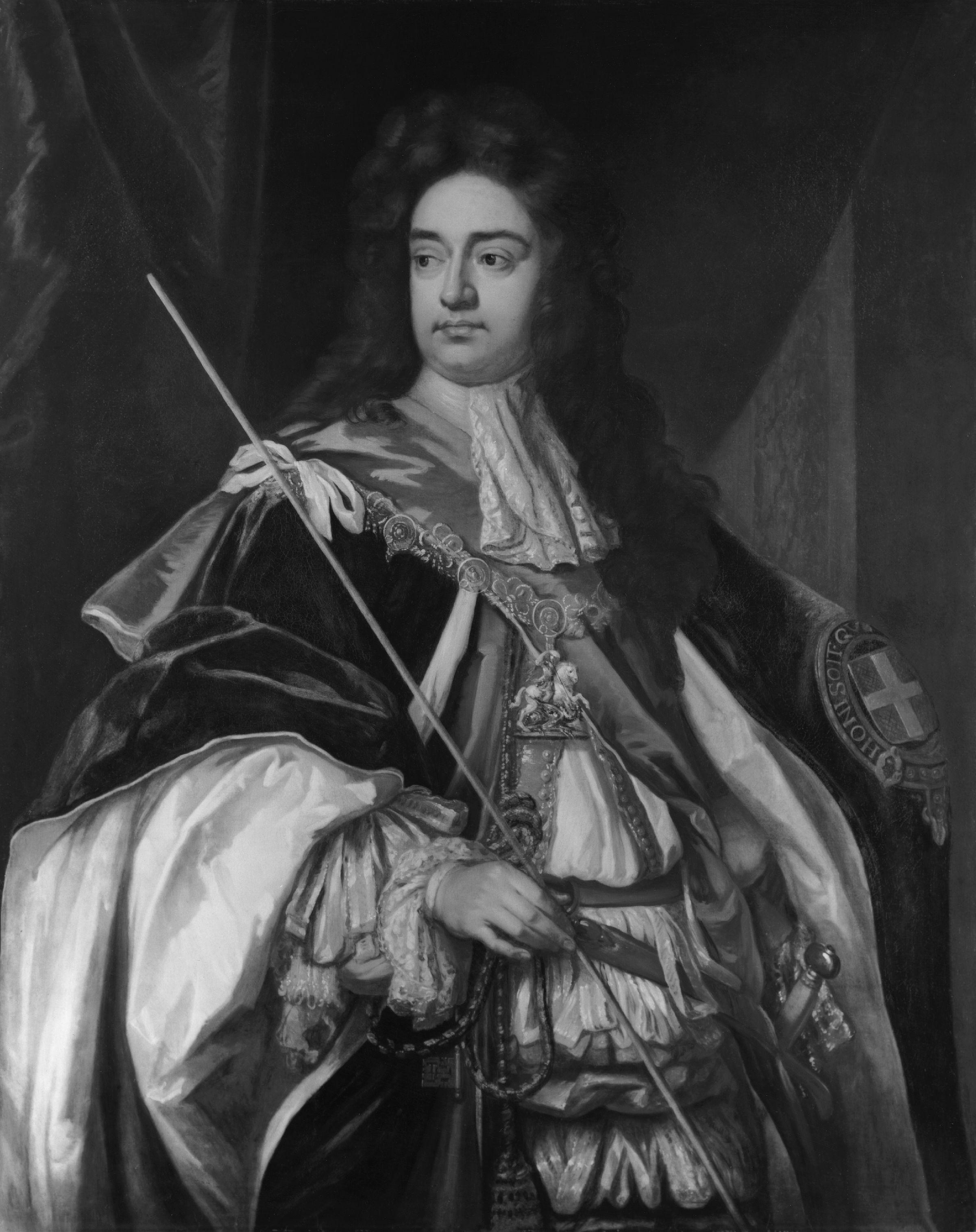 Charles Sackville, 6th Earl of Dorset, by Sir Godfrey Kneller, Bt (died 1723). All images in this batch have been confirmed as author died before 1939 according to the official death date listed by the NPG.